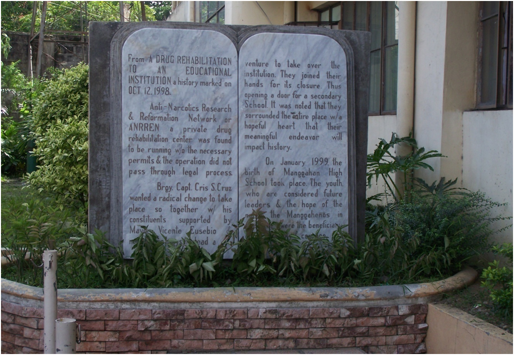 A historical marker in Manggahan High School, located at Karangalan Village, Brgy. Manggahan, Pasig City.